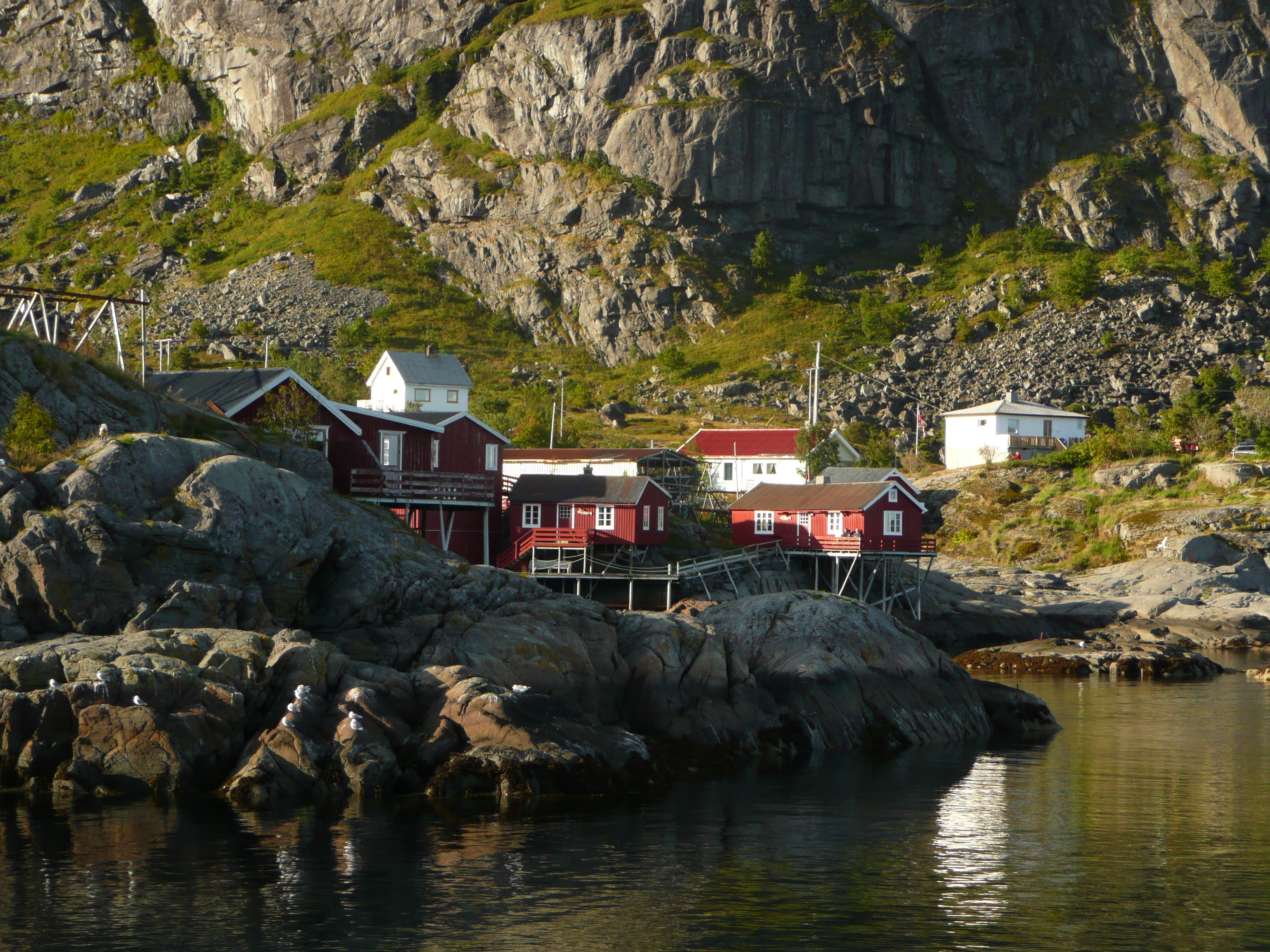 From Å, Lofoten, Norway.